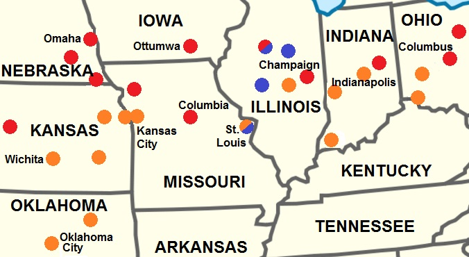 This map show the Atlas of North American English's major studied cities in the Midland dialect region.